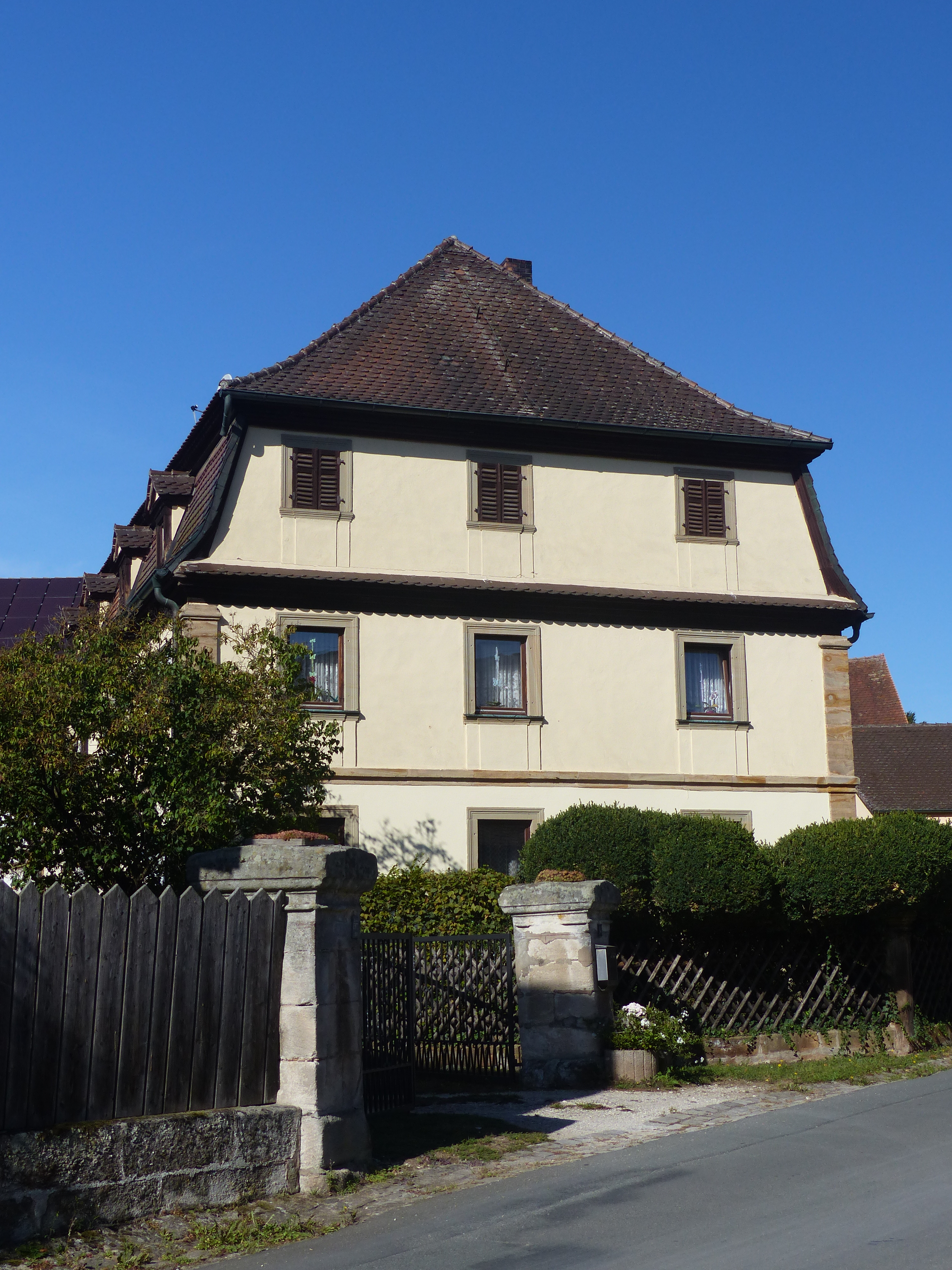 A farmhouse in the village Stiebarlimbach, a district of the municipality of Hallerndorf.